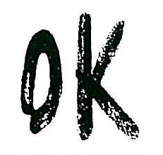 autograph of the painter Oskar Kokoschka